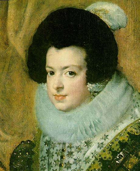 Isabella of Bourbon, 1st wife of Philip IV. of Spain, detail of Image:IsabellaofBourbonVelazquez1632.jpg